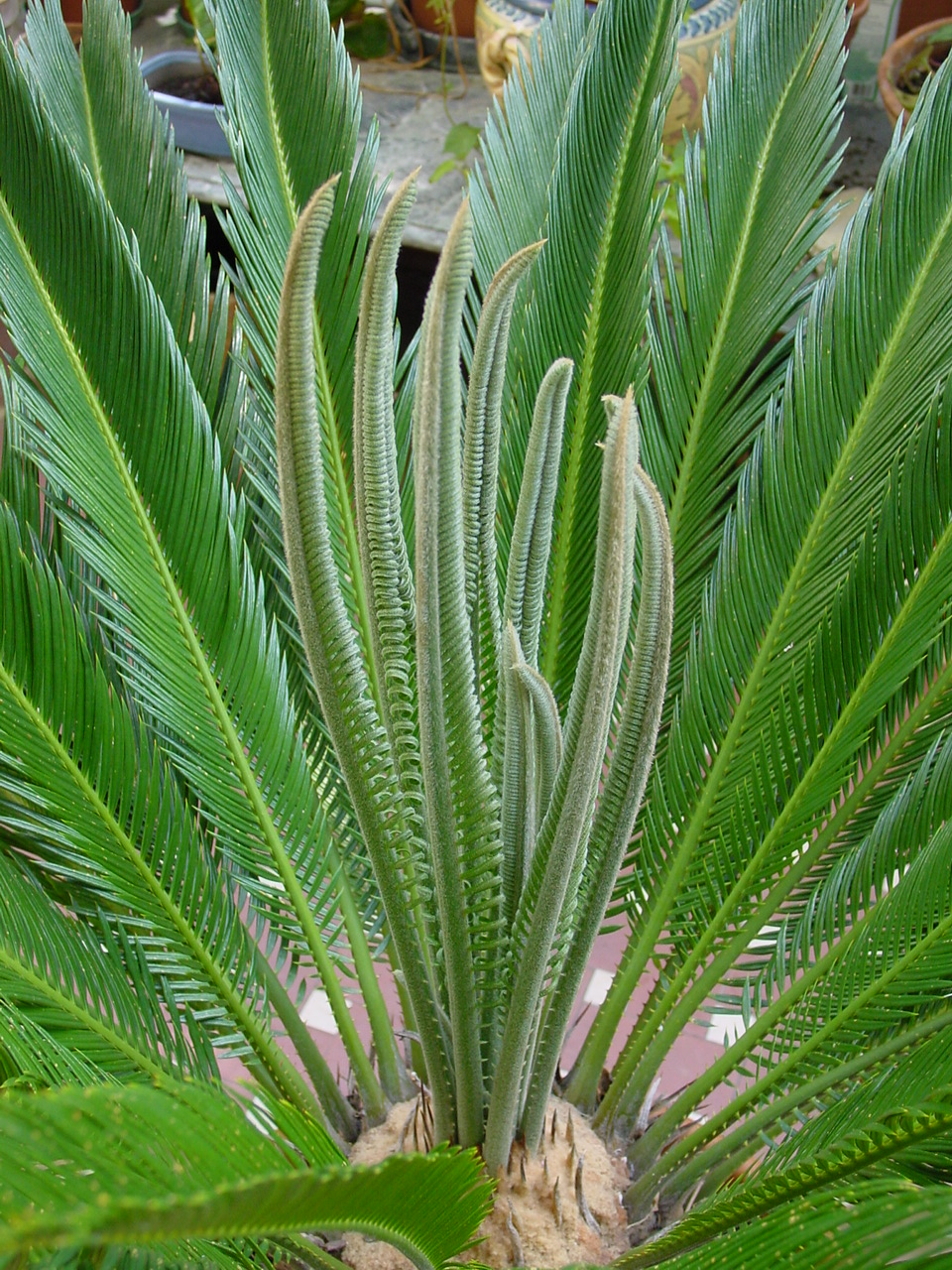 Cycas revoluta (Thunb. 1782) detail of spring foliation